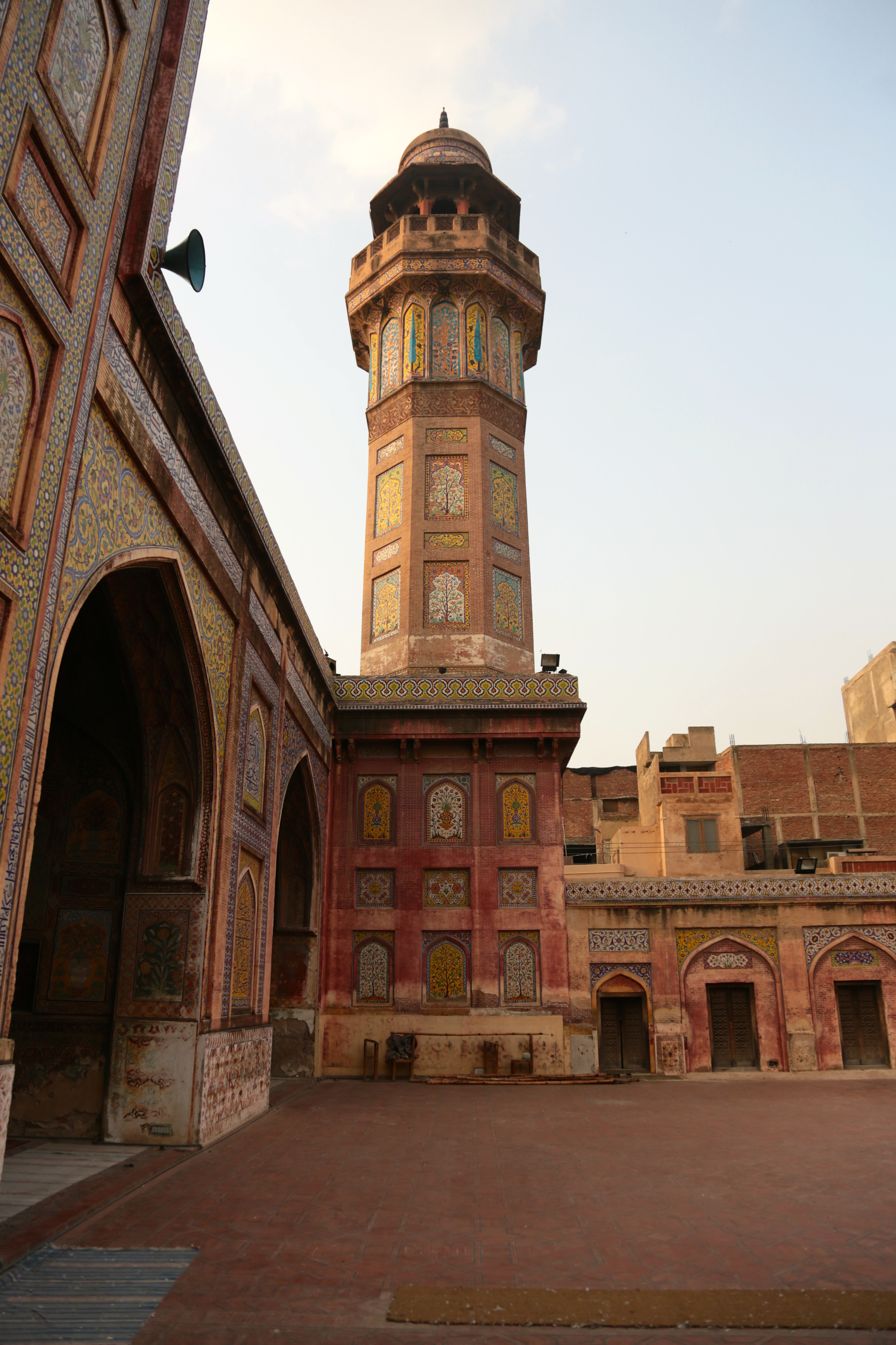 Wazir Khan Mosque This is a photo of a monument in Pakistan identified as the PB-100